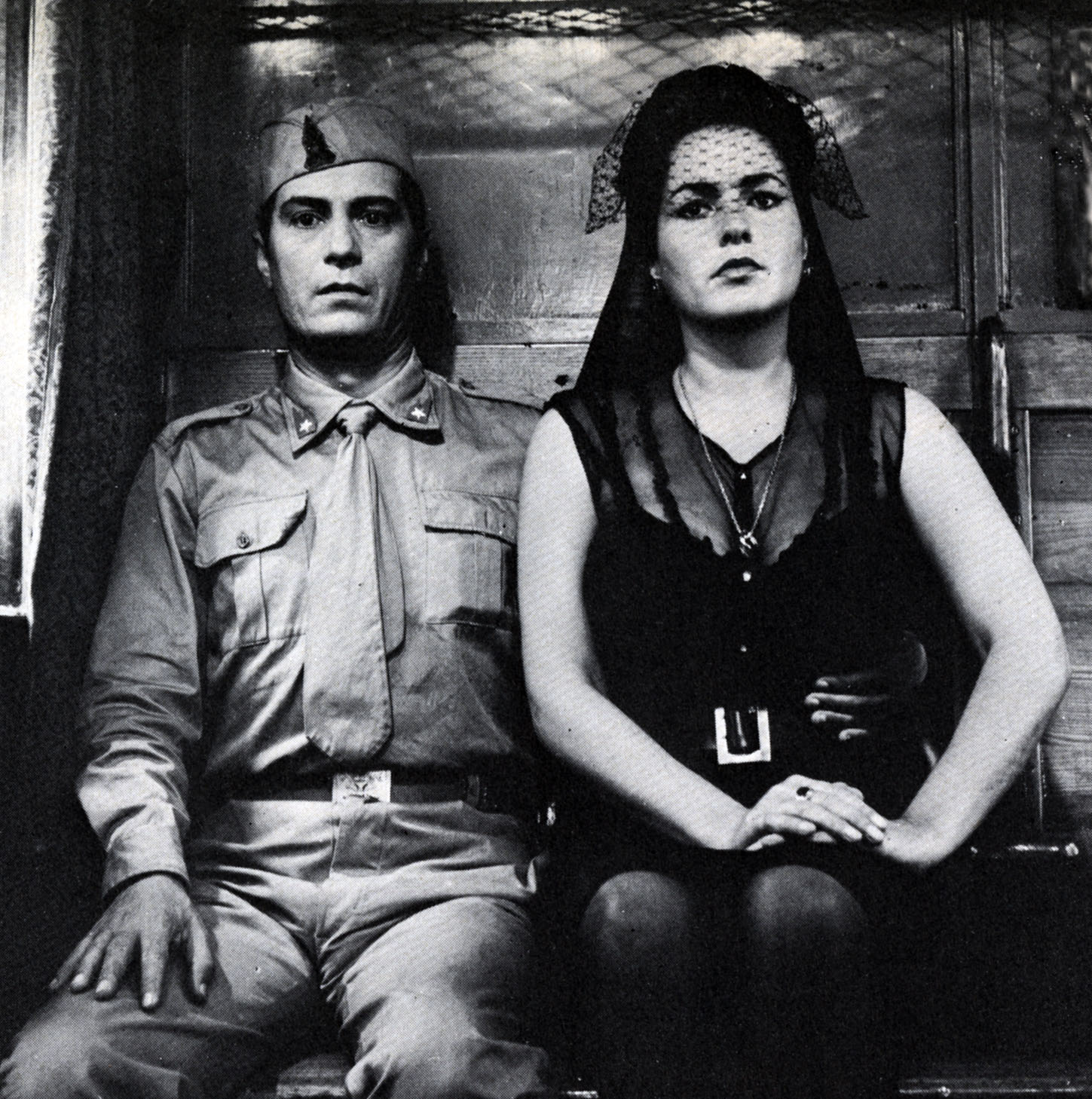 screenshot from the film L'amore difficile (1962)